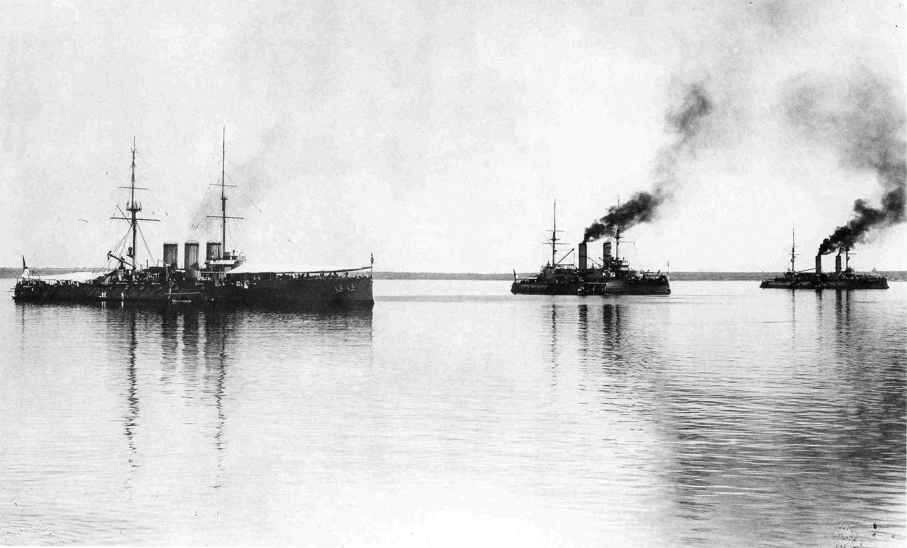 Russian armoured cruiser Ryurik, battleships Slava and Tsesarevich.